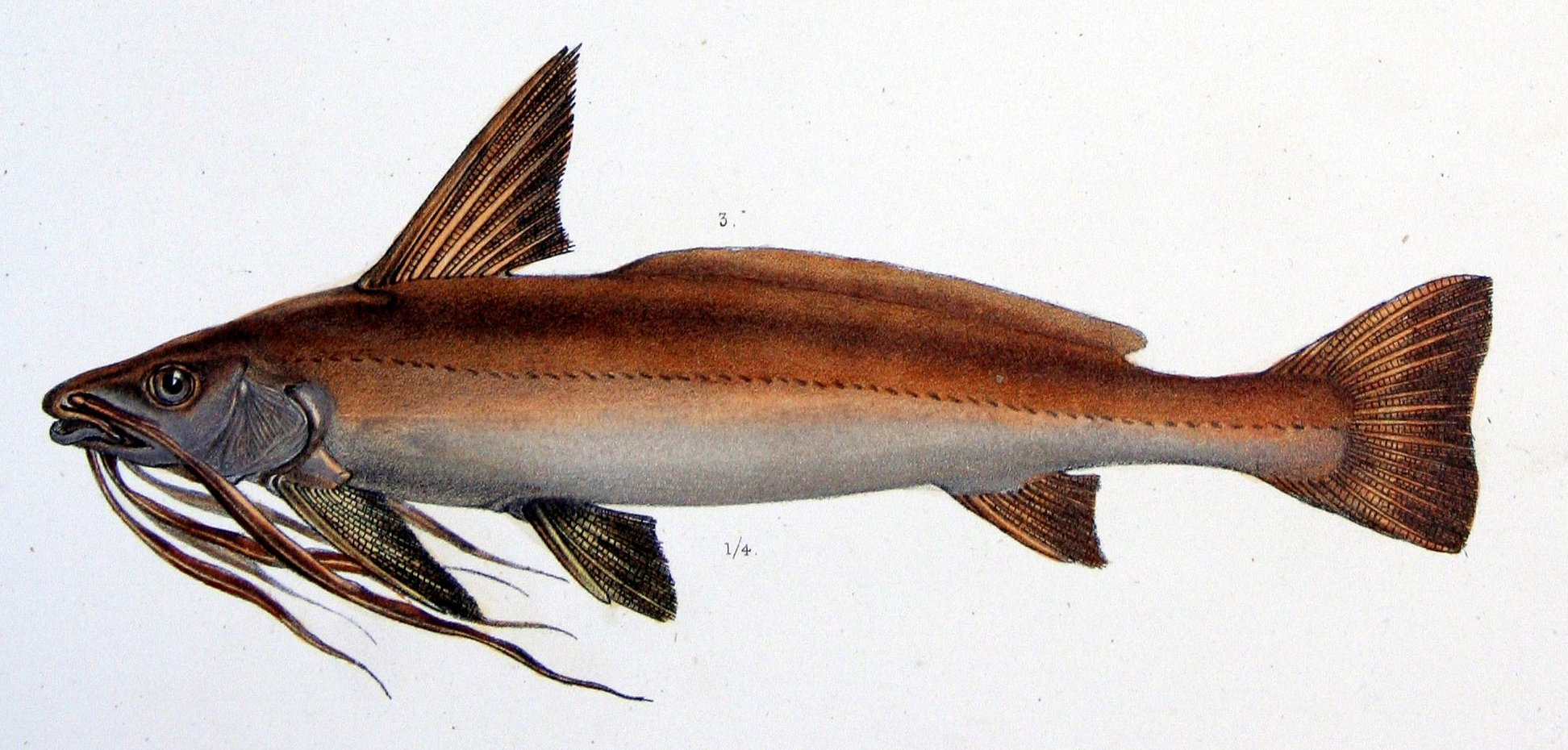 Galeichthys araguayensis Cast. = Pinirampus pirinampu (Spix & Agassiz, 1829)